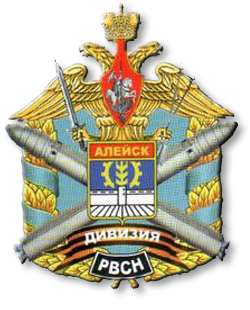 Emblem of the 41st Guards Rocket Division between the late 1990s and 2001